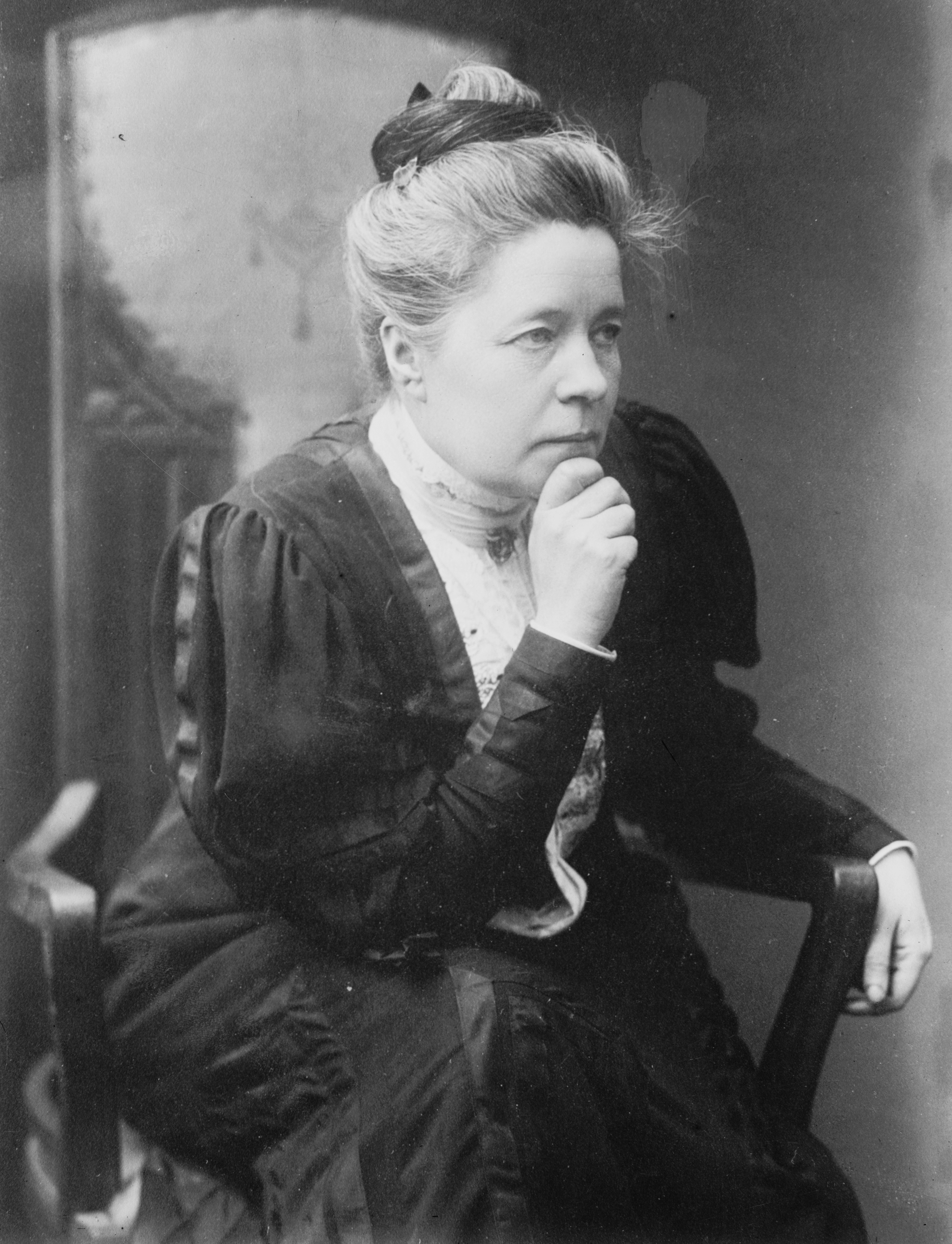 Swedish writer Selma Lagerlöf (1858–1940)